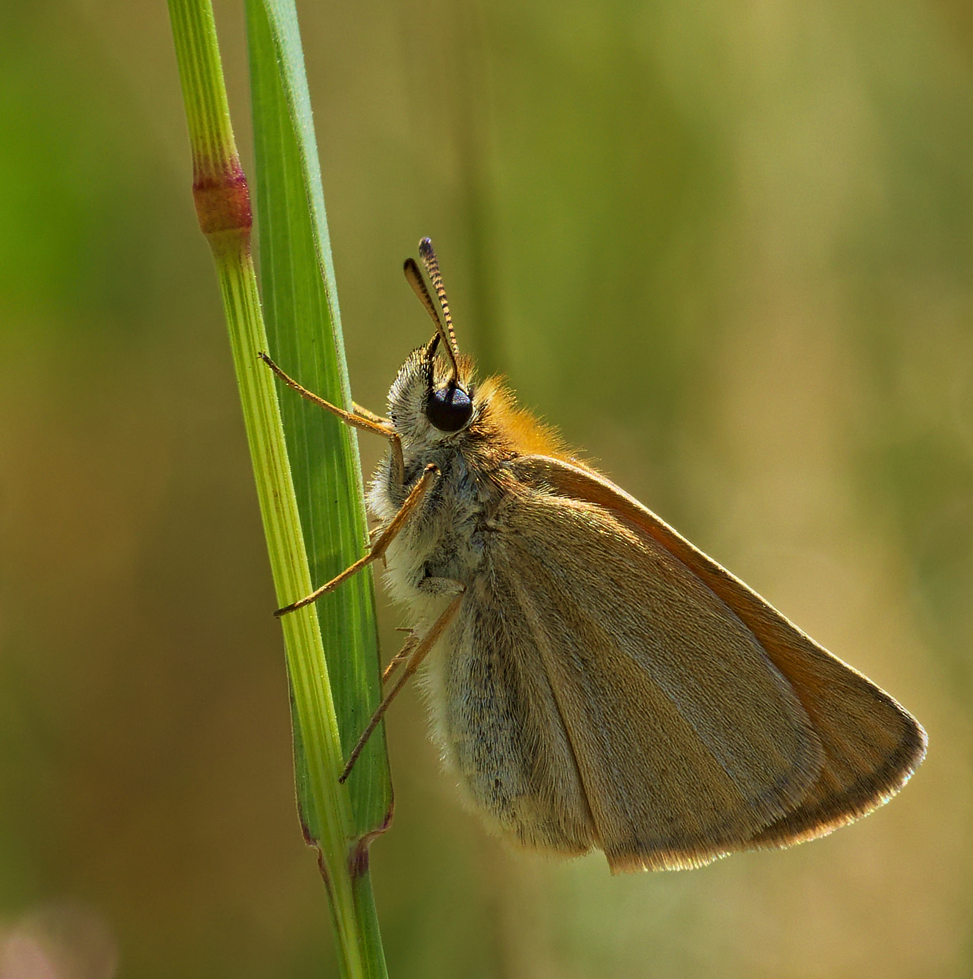 Essex skipper - Thymelicus lineola. Taken in Viernheim, Hesse, Germany.